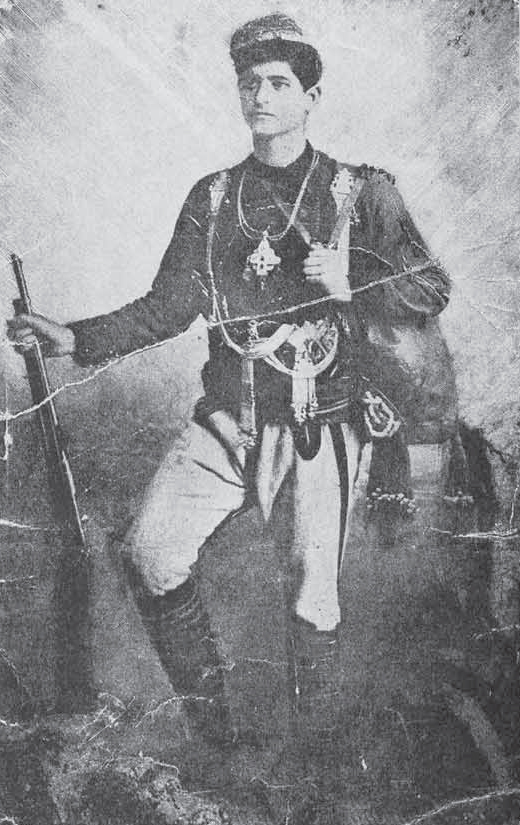 Portrait of bulgarian revolutionary Stoyan Dimitrov